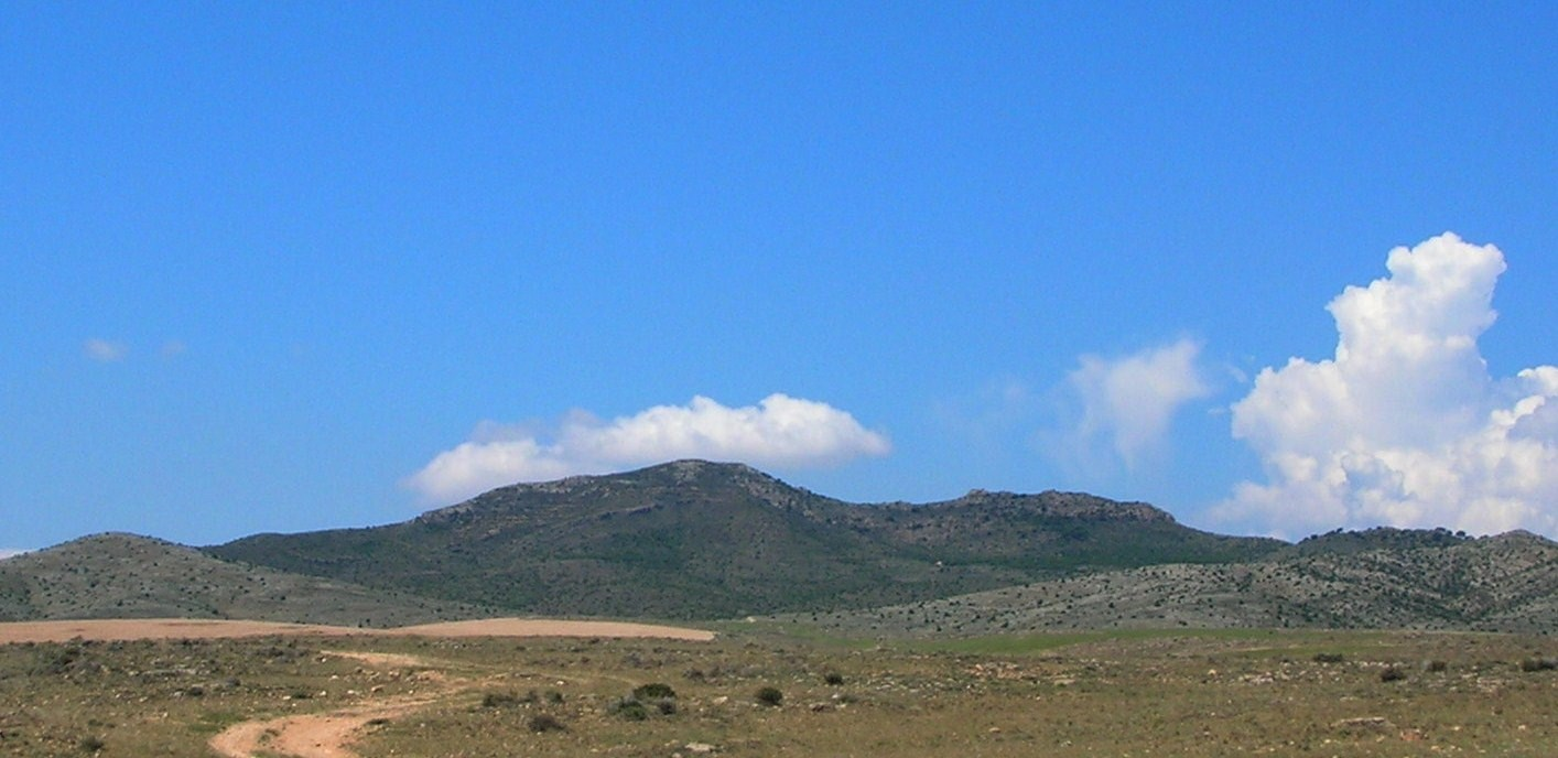 Monegre, 922 m high peak in Sierra de Nava Alta, Aragon